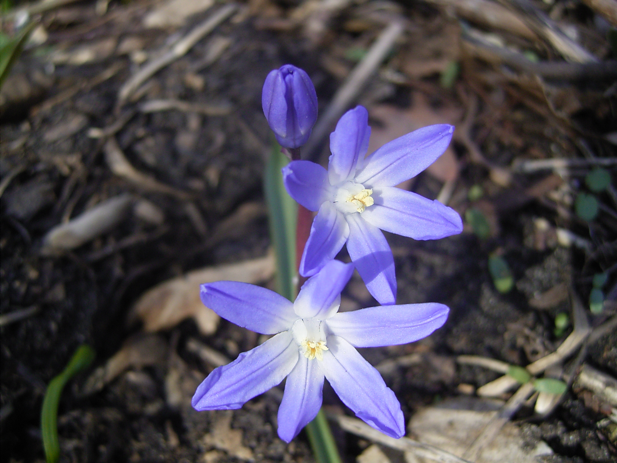 Deze foto toont de vroege sterhyacinth. Ik nam de foto vandaag 1 april 2006 in de duinen tussen Scheveningen en Kijkduin. This pic shows the Scilla bifolia. I took the photo today in the dunes south of Scheveningen, Netherlands.